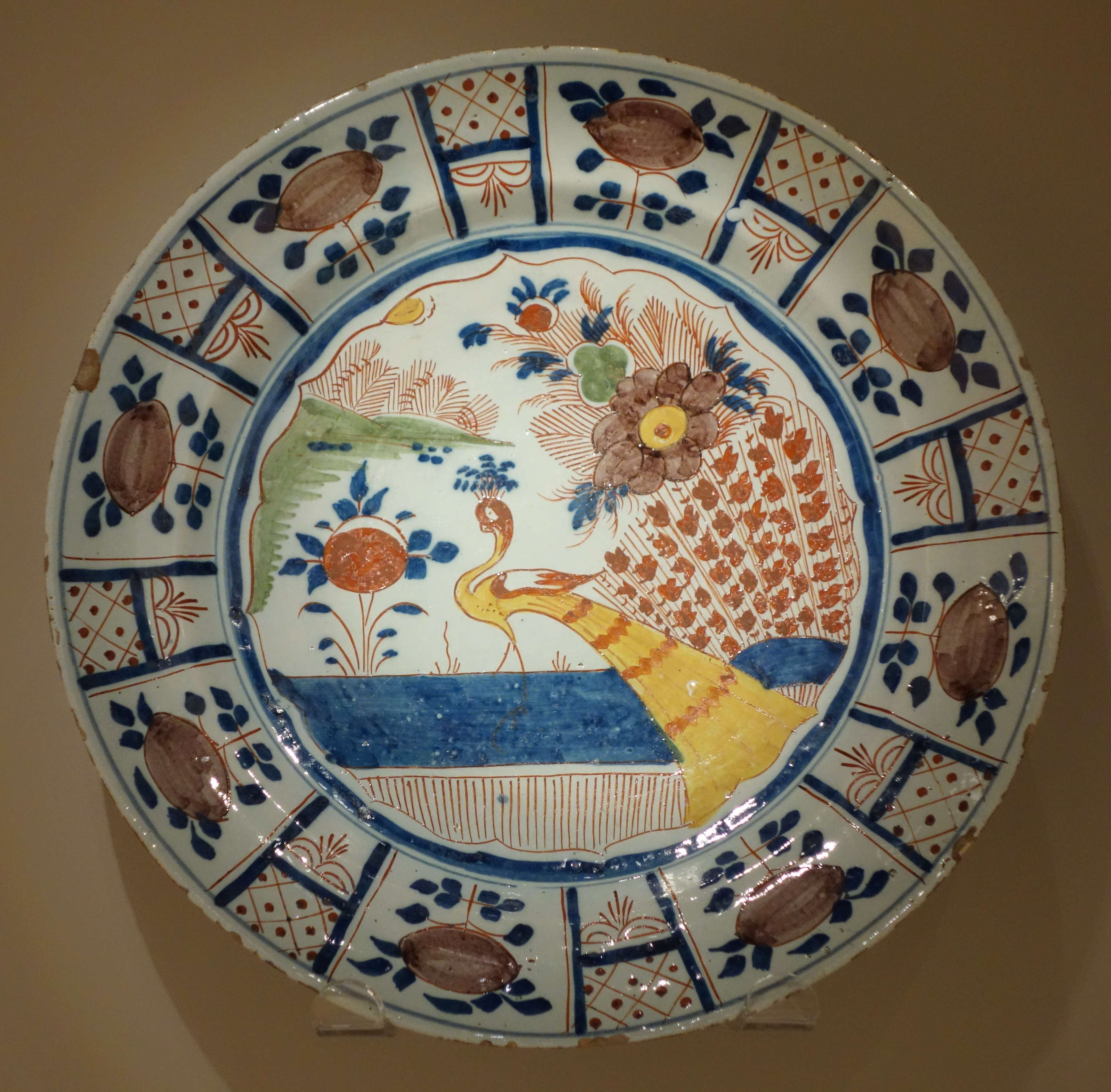 Exhibit in the Chazen Museum of Art, University of Wisconsin-Madison, Madison, Wisconsin, USA. This artwork is old enough so that it is in the public domain.